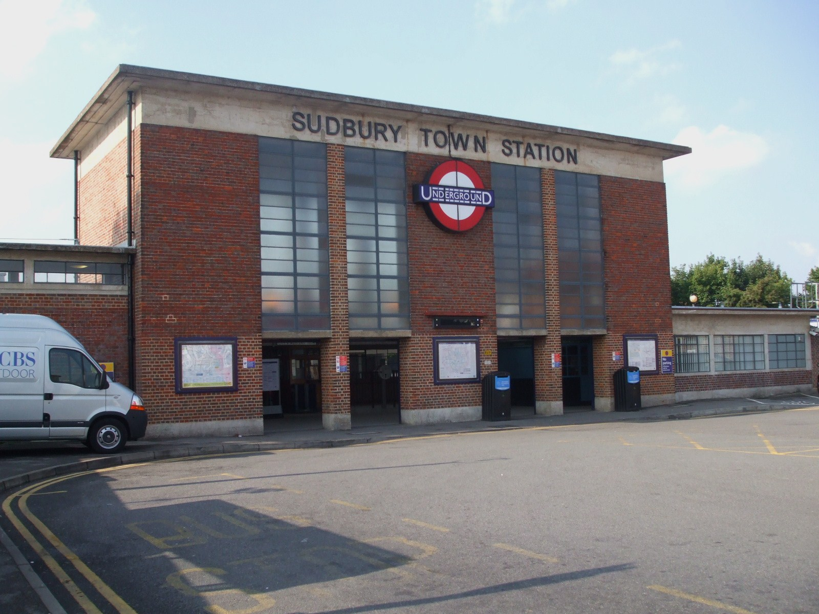 Sudbury Town tube station main entrance on eastbound side